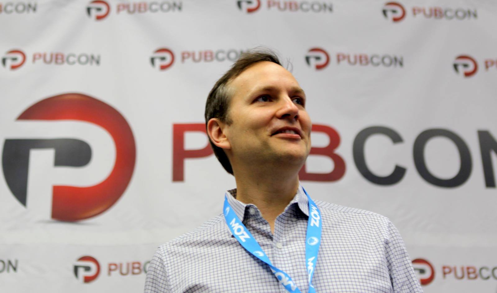 Stephan Spencer - 2014 Pubcon Las Vegas Photos